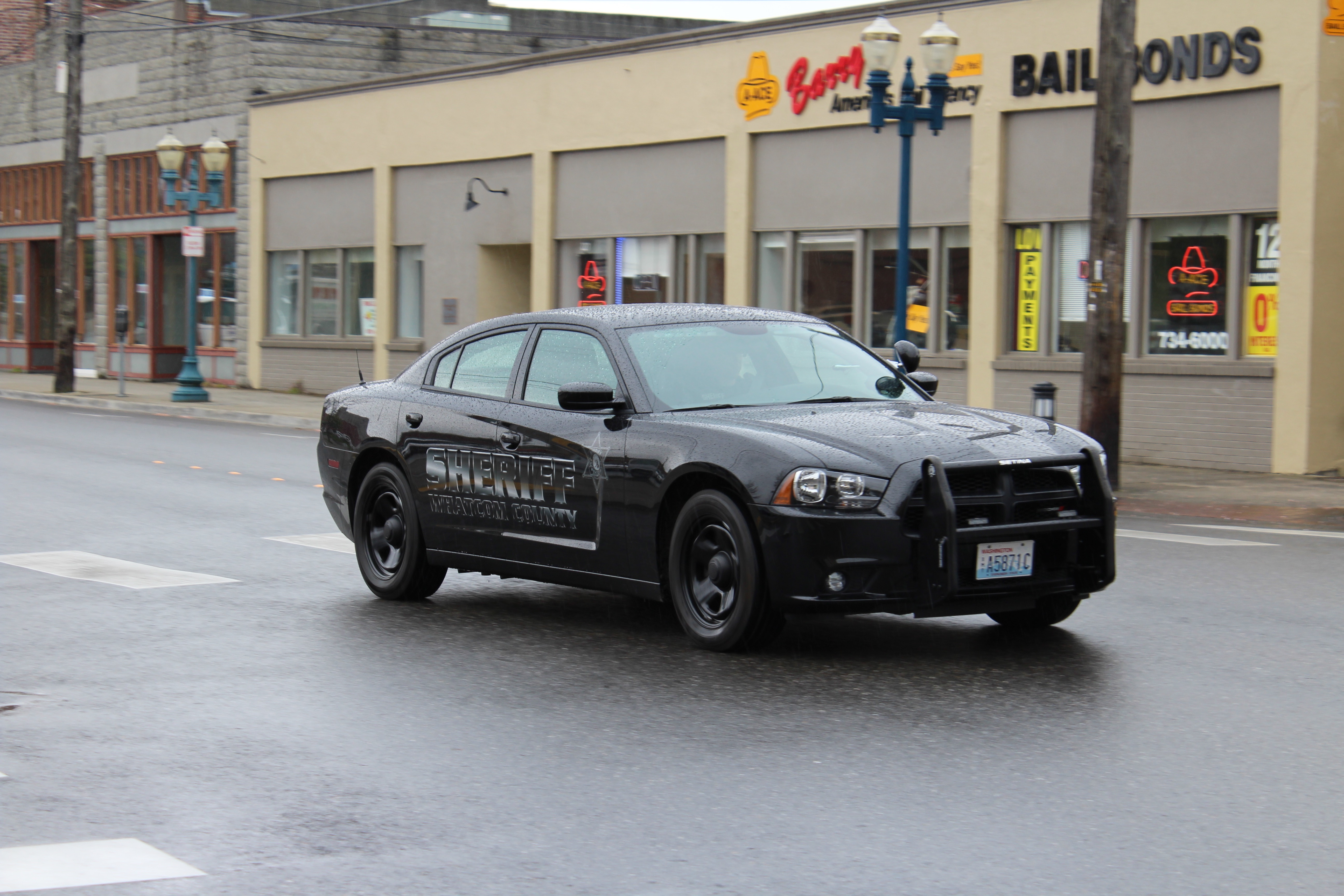 Seeing this car really surprised me. As far as I know it's brand new (although no later than 2014 model year), is the first Charger used by WCSO, and is the first and only to feature a black design. I was lucky enough to capture it both in the parking lot and driving (although no emergency lights yet). Definitely a change from the white and green Crown Vics with big blue lights. No word on what role it's for yet. I couldn't pull any unit numbers to reference to their later vehicles to pin an approximate date either. Traffic enforcement comes to mind first, but could also be worth noting that, to my knowledge, WCSO only maintains one Tahoe, one Ford Police Utility and now one Charger, almost giving me the impression that they're doing a pilot program similar to what Seattle did until late last year.